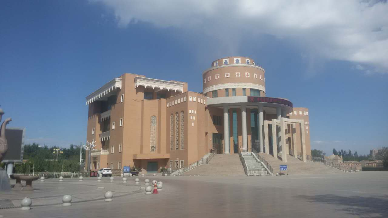 Hami Museum in Hami, Xinjiang in 2016